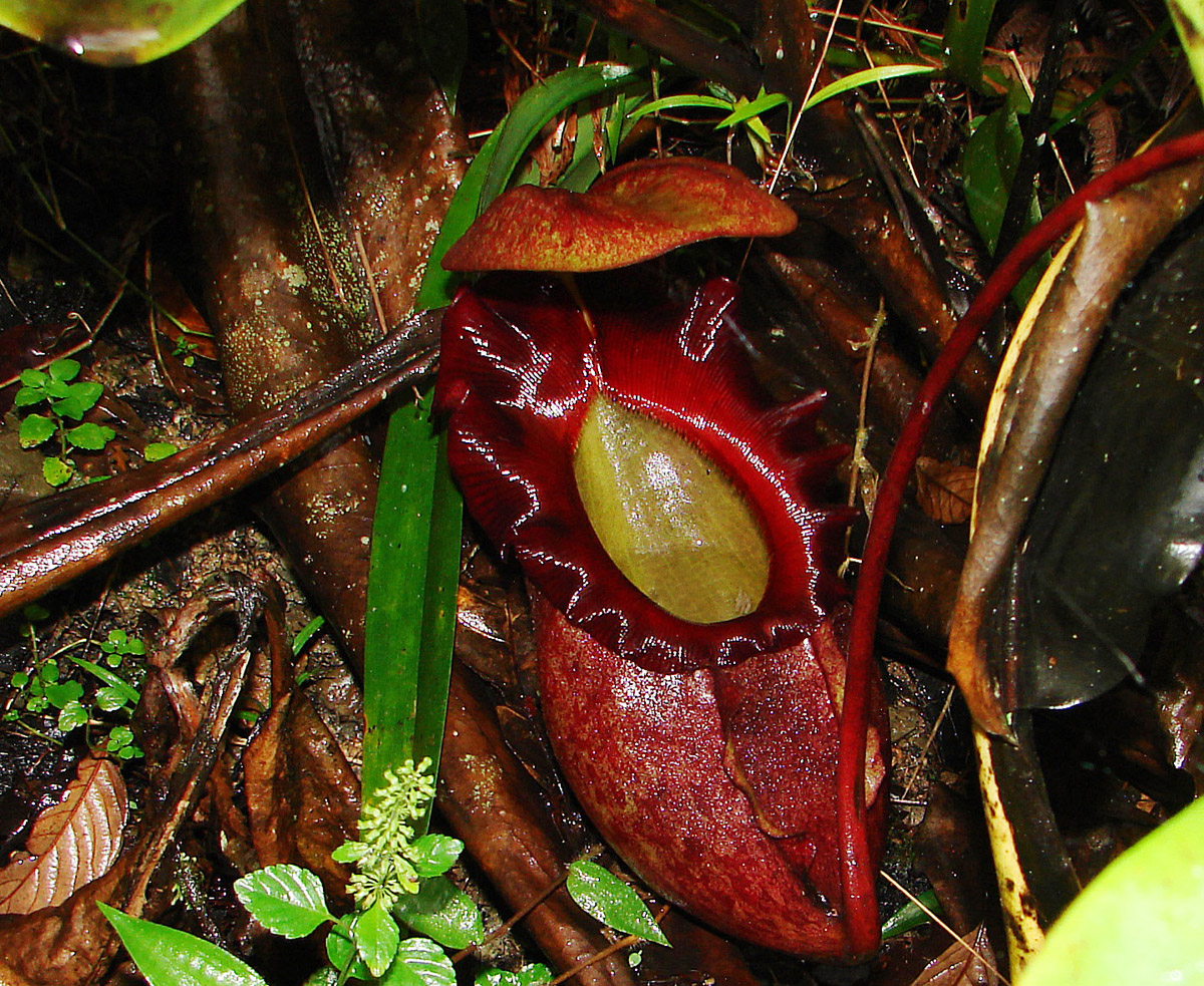 The largest Pitcher Plant, capable of digesting frogs and mice as well as insects. Widely planted but native only to the highest mountains of northeastern Borneo. Photo from Mt. Kinabalu. In context at